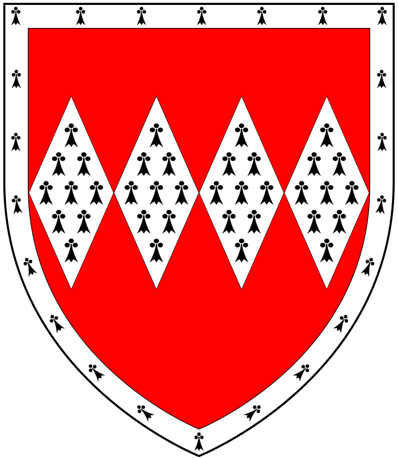 Arms of Dynham of Wortham in the parish of Lifton, Devon: Gules, four fusils in fess a bordure ermine (Vivian, Lt.Col. J.L., (Ed.) The Visitations of the County of Devon: Comprising the Heralds' Visitations of 1531, 1564 & 1620, Exeter, 1895, p.316; Pole, Sir William (d.1635), Collections Towards a Description of the County of Devon, Sir John-William de la Pole (ed.), London, 1791, p.480). These are the arms of Baron Dynham differenced by a bordure ermine